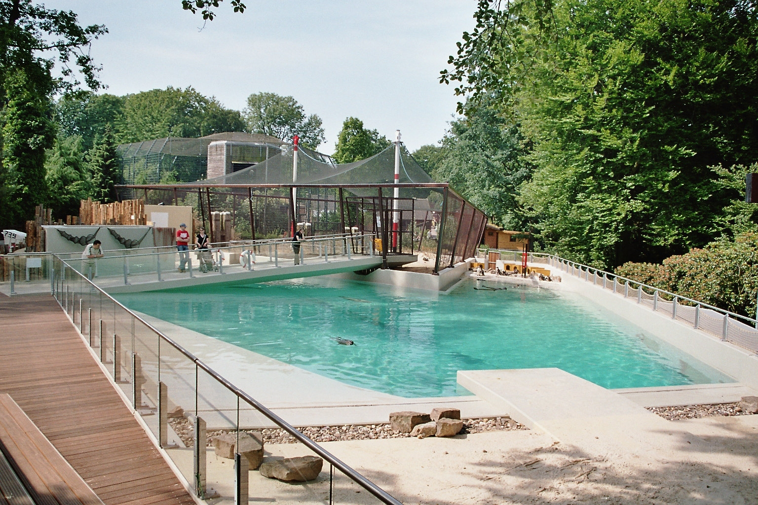 Enclosure "Nordseewelten" for Harbour seals (Phoca vitulina) and Humboldt penguins (Spheniscus humboldti) at Tierpark Bochum, Germany